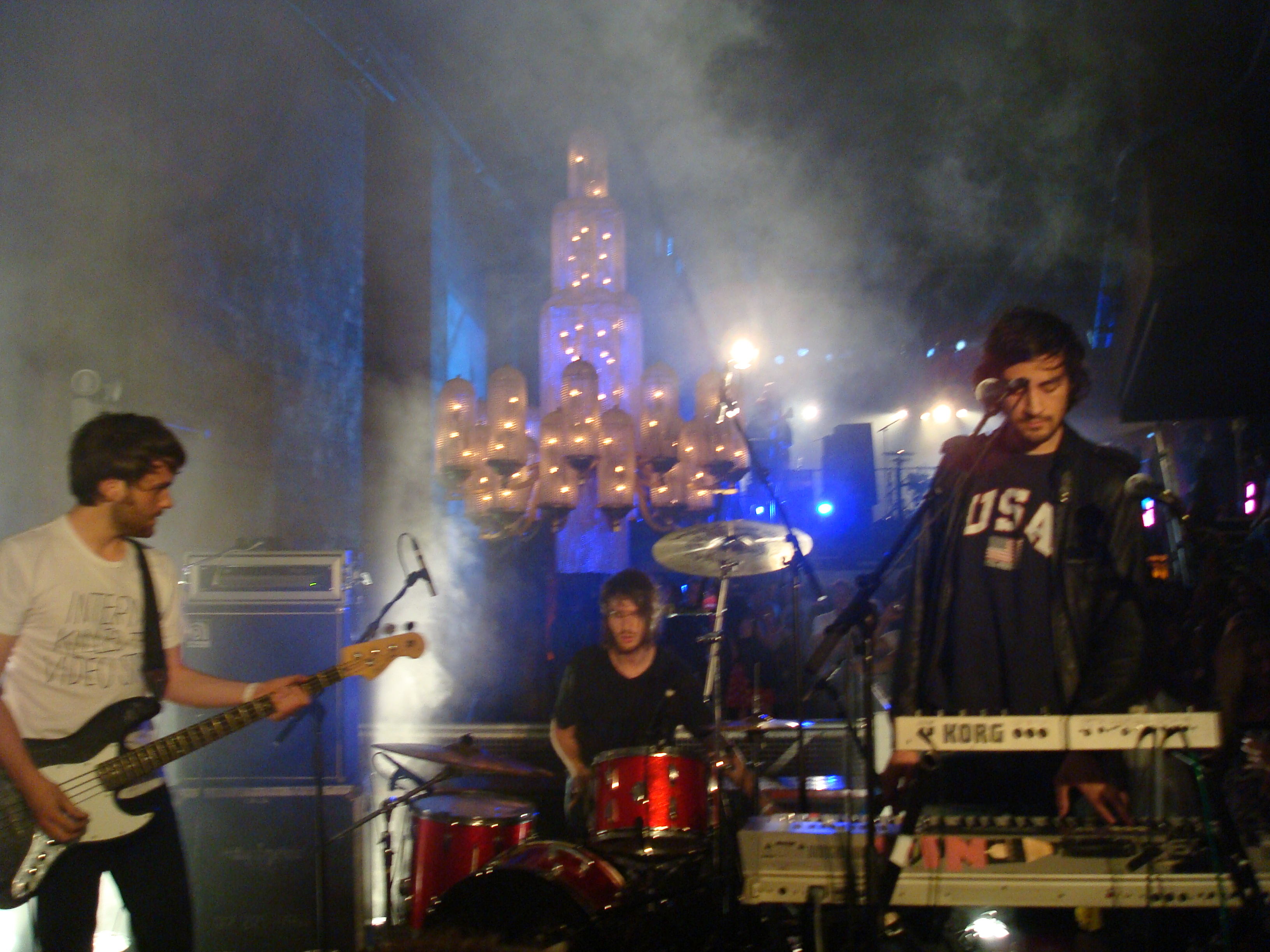 Photograph by Simon Ryan. Thursday, October 4th, 2007. The Lair, Sydney.